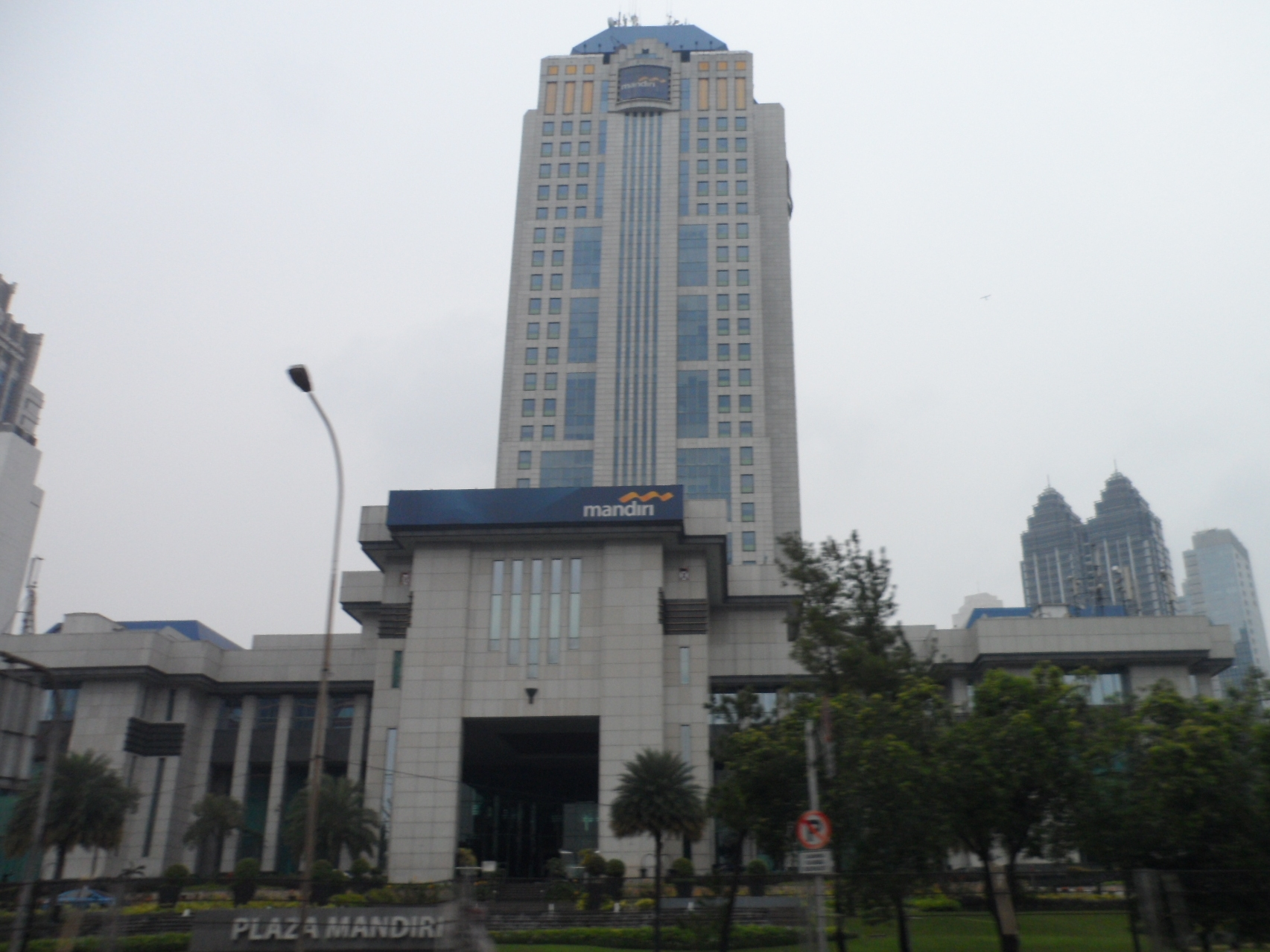 Bank Mandiri, Senayan, Kebayoran Baru, South Jakarta, Indonesia